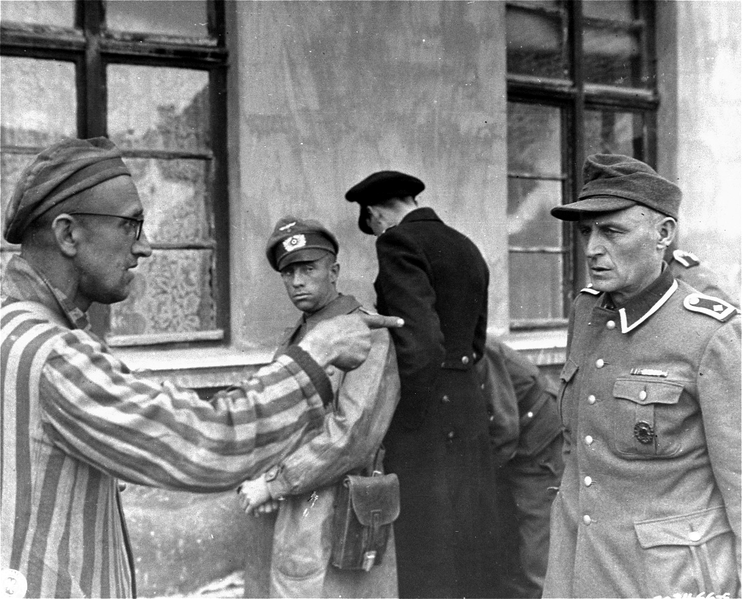 Russian survivor liberated 14.04.1945 by U.S. Army in Buchenwald camp in Germany identified a former guard from SS who was brutally beating prisoners and was probably involved in the crime of the Holocaust.